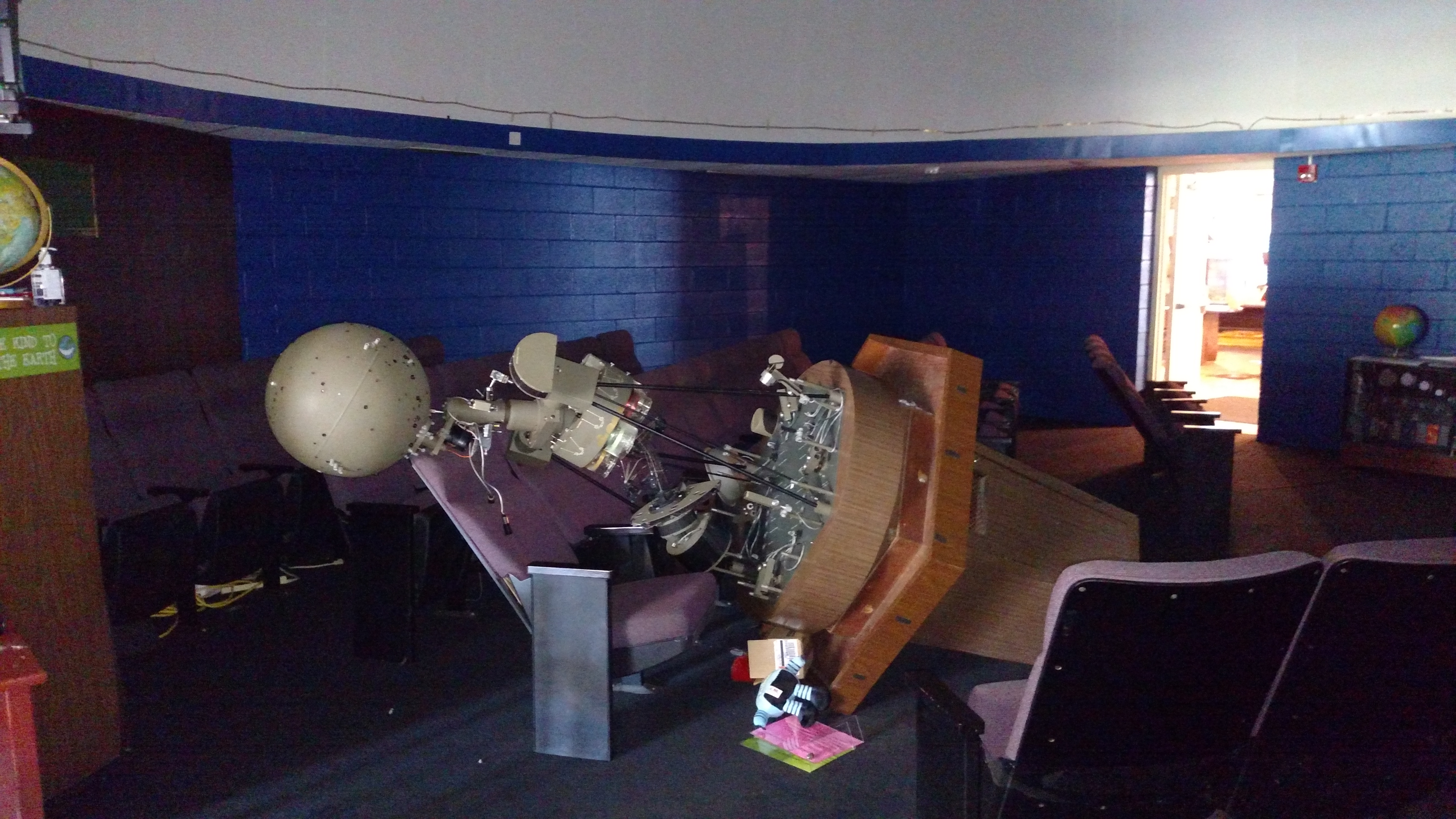 This normally stands upright.